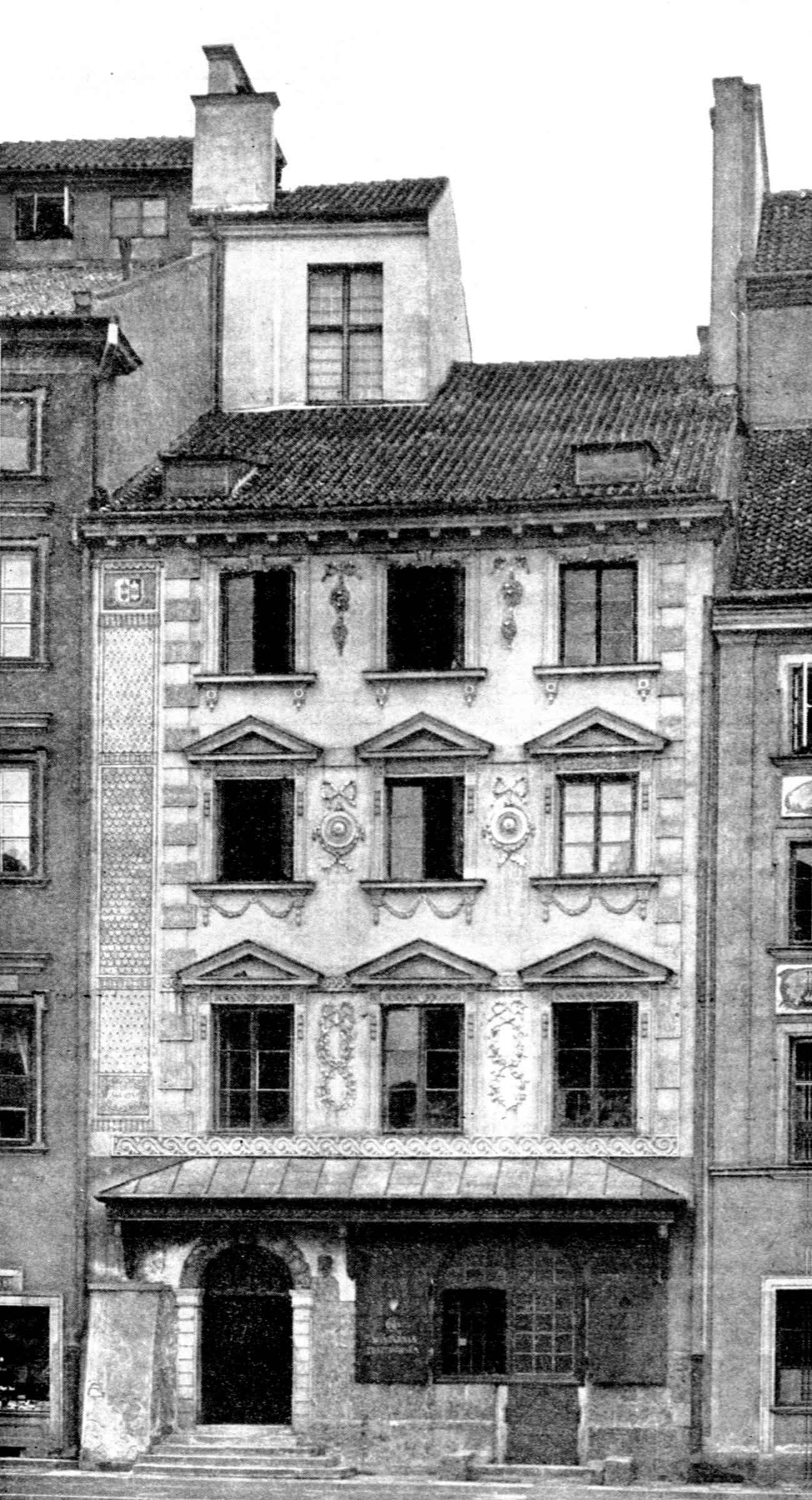 Fugger House on the Old Town Marketplace, Warsaw